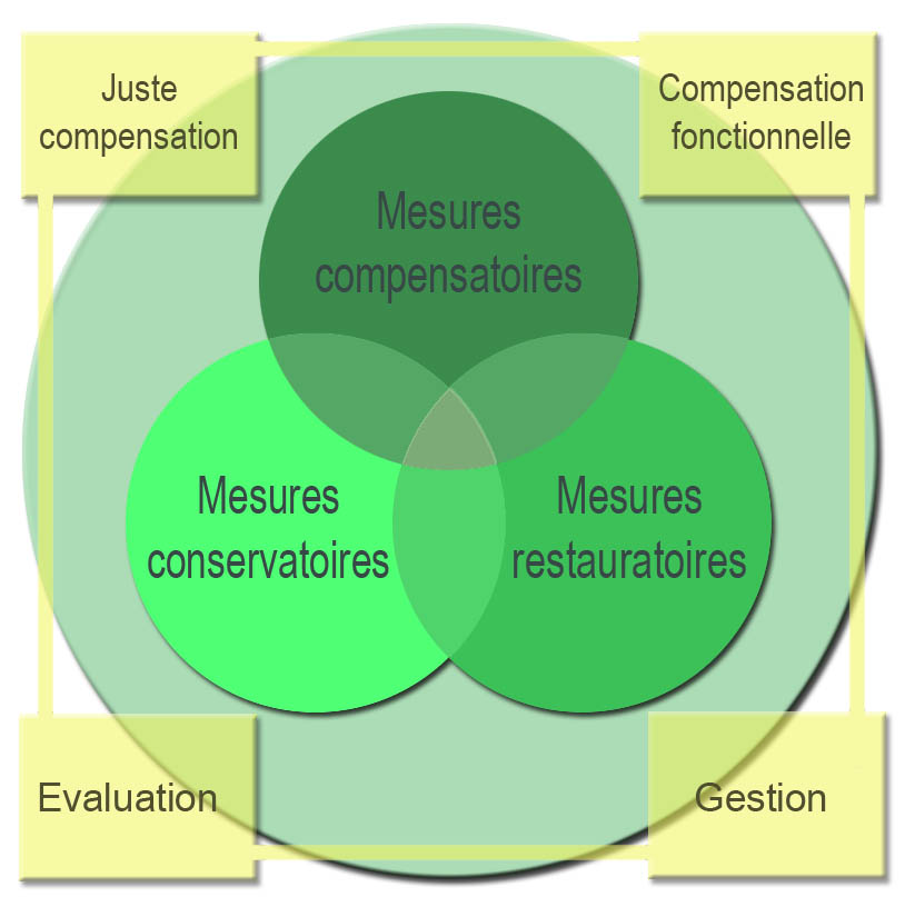 Diagram showing a few (frech) key-words and the relationships and interrelationships between three modes of compensation for environmental impacts, as required or permitted to be offset continued to impact studies.